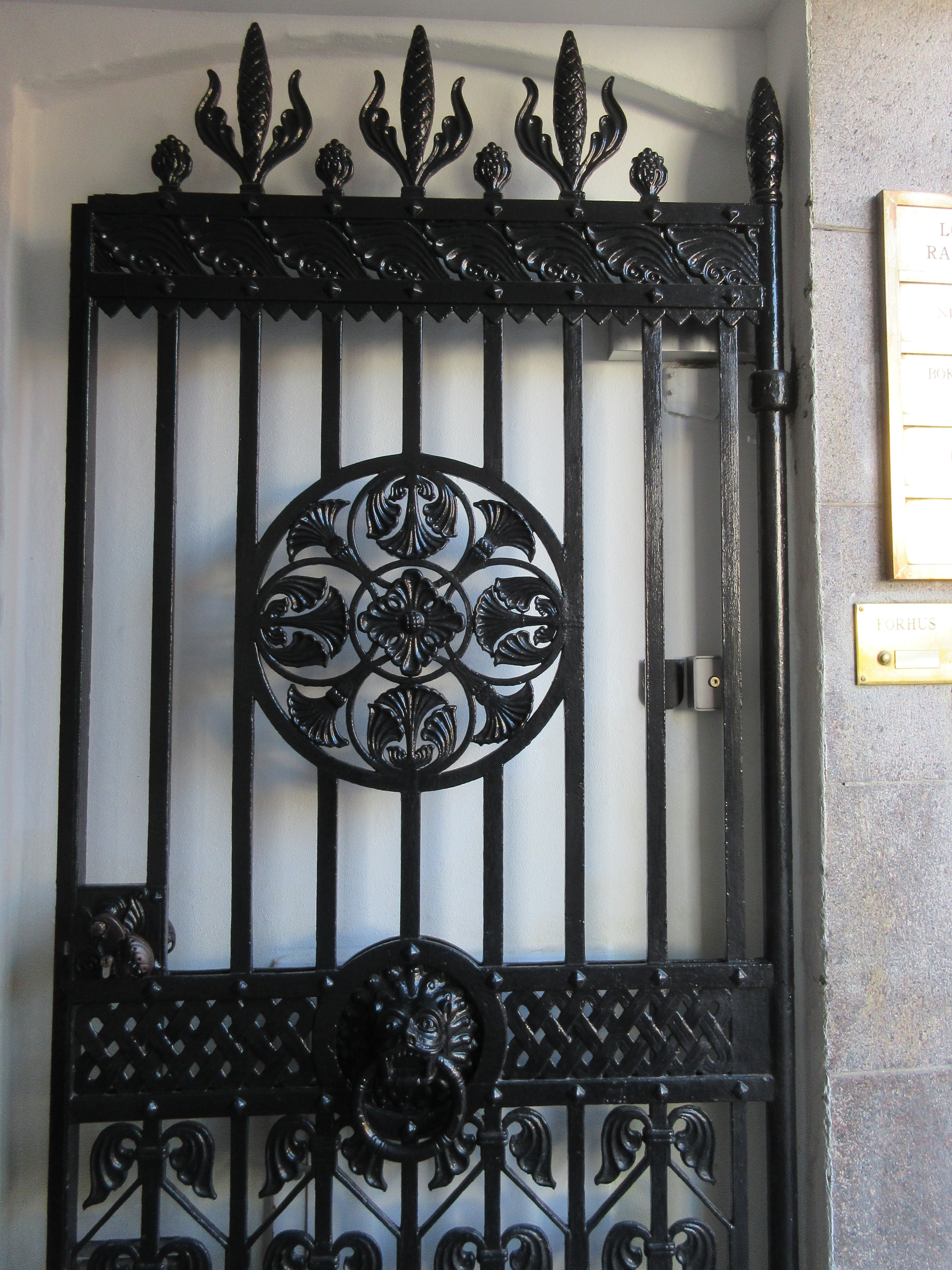 Detail of the gate at Lille Strandstræde 22 in Copenhagen, Denmark